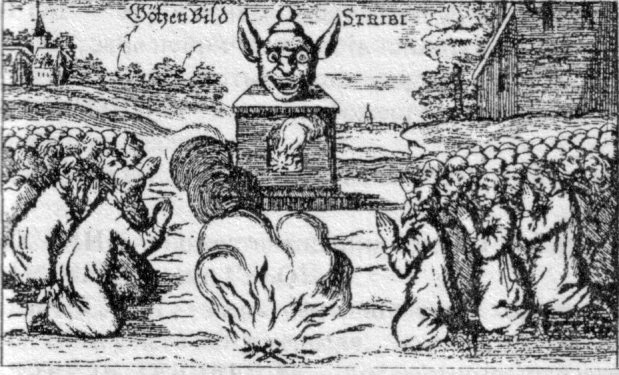 Worship of STRIBOG (SCHLEUSING G. A La religion ancienne et moderne des Moscovites. Amsterdam, 1698)